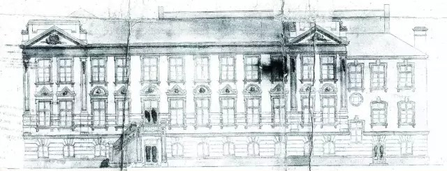 中文（香港）: 上海总商会议事厅大楼设计图纸 (this is the blueprint of a building, which was built during 1913 to 1916)